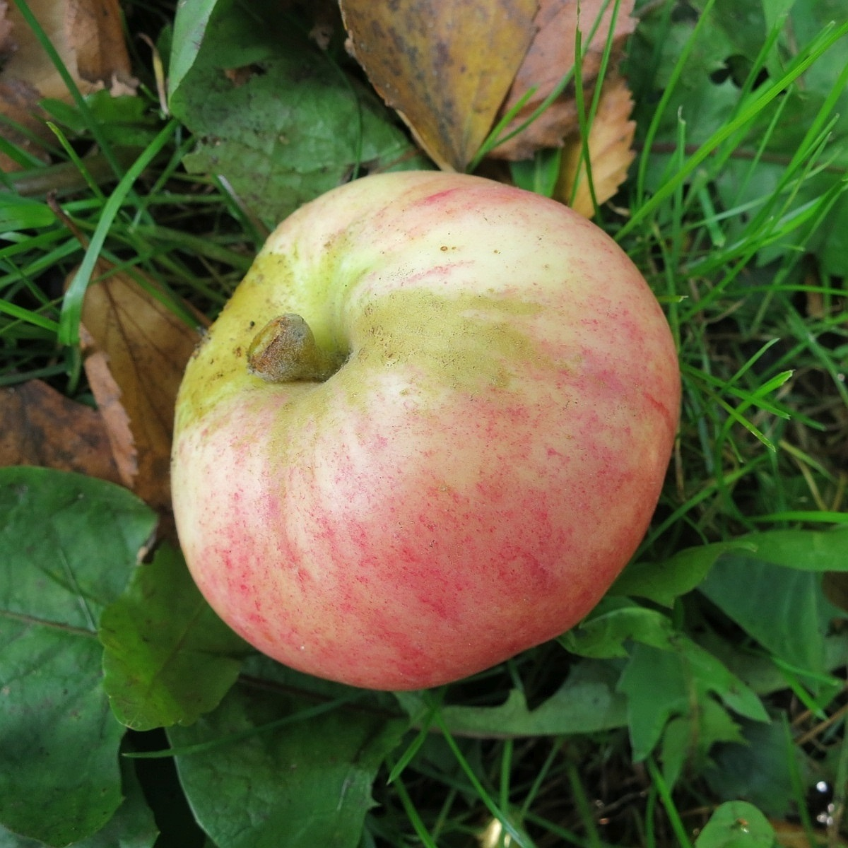 Apples of Estonian appletree cultivar 'Tallinna pirnõun' are very sweet, and ripen in early autumn.